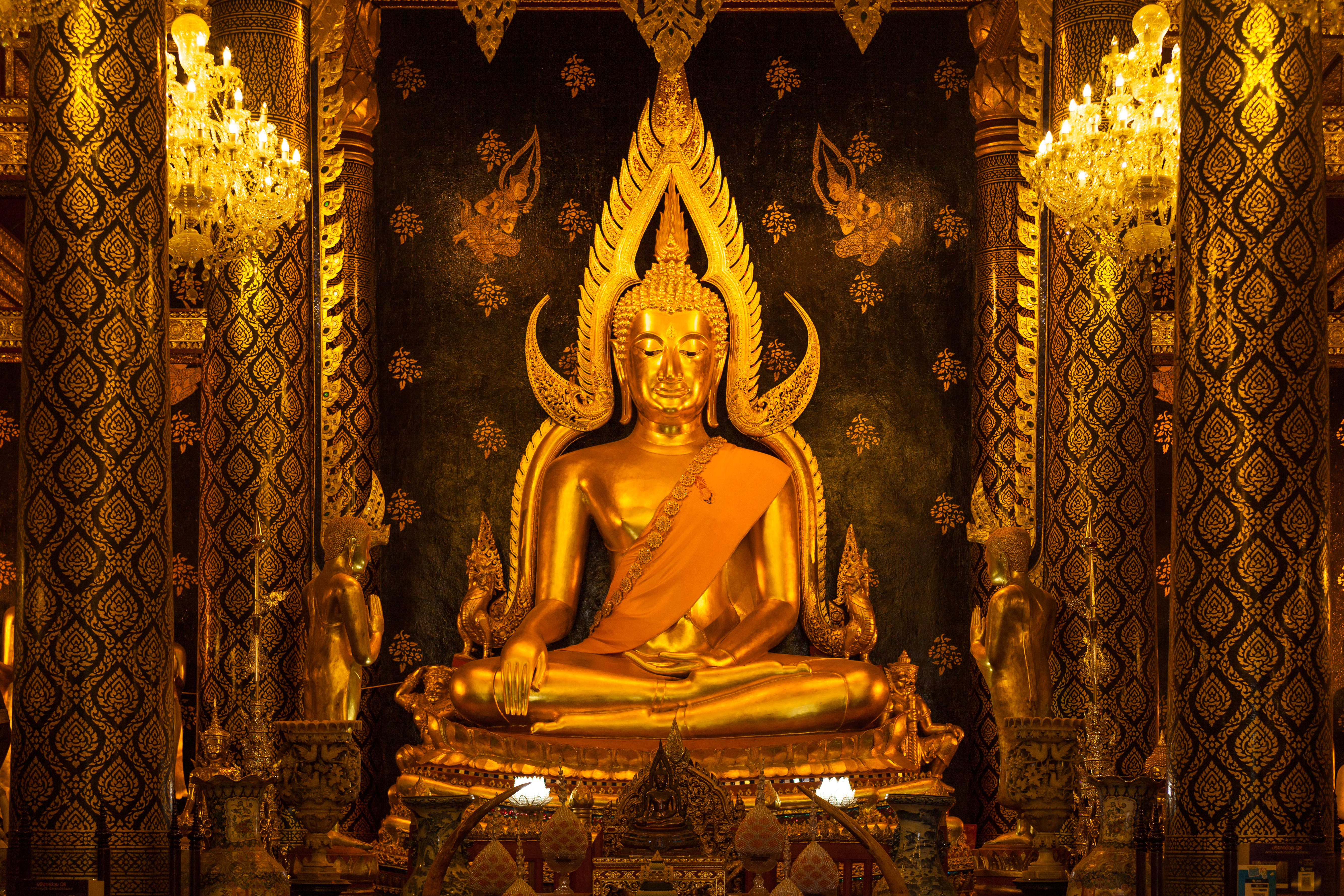 Phra Phuttha Chinnarat at Wat Phra Si Rattana Mahathat, Phitsanulok Province, Thailand.